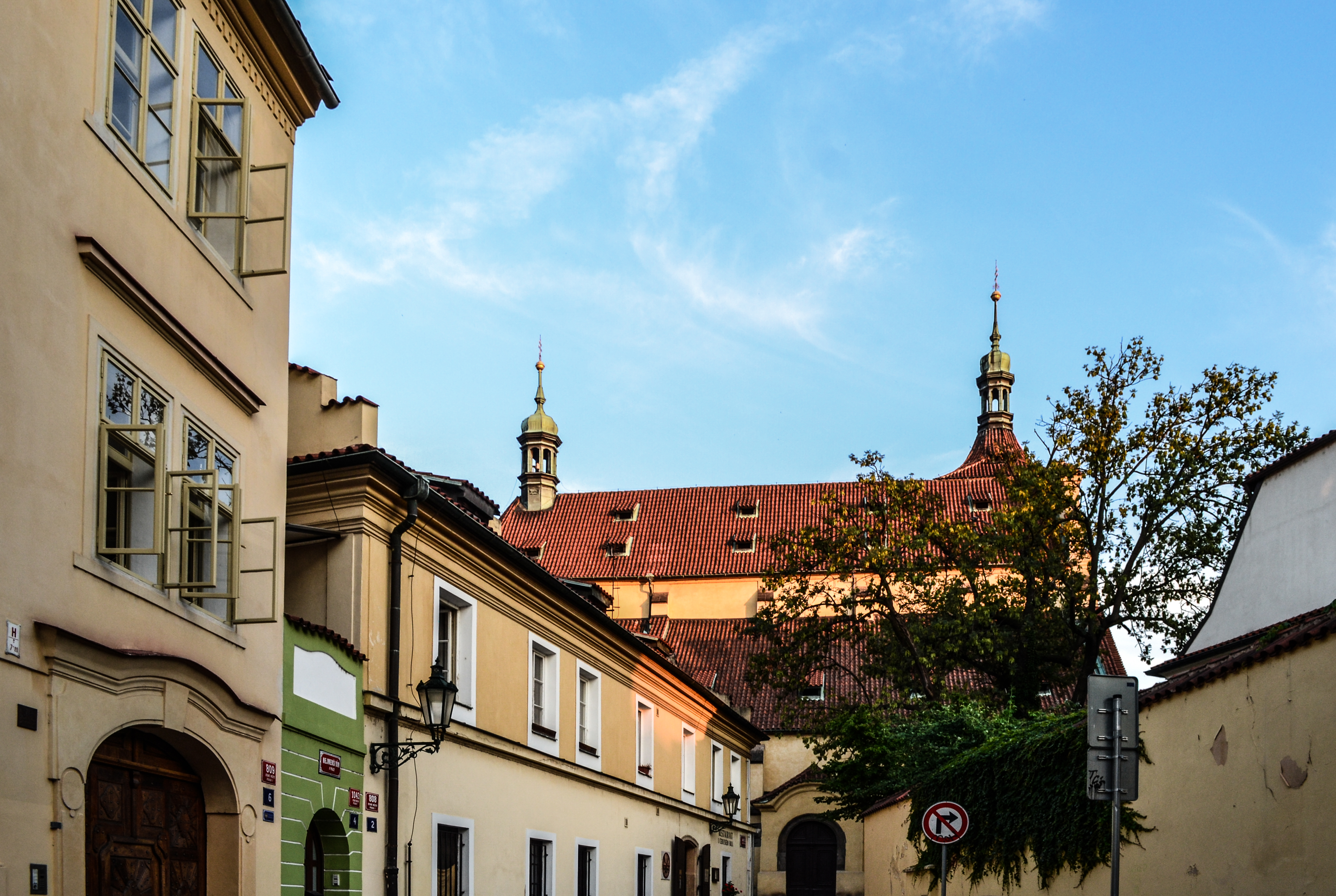 The Church of Saint Castulus, as seen from the north.